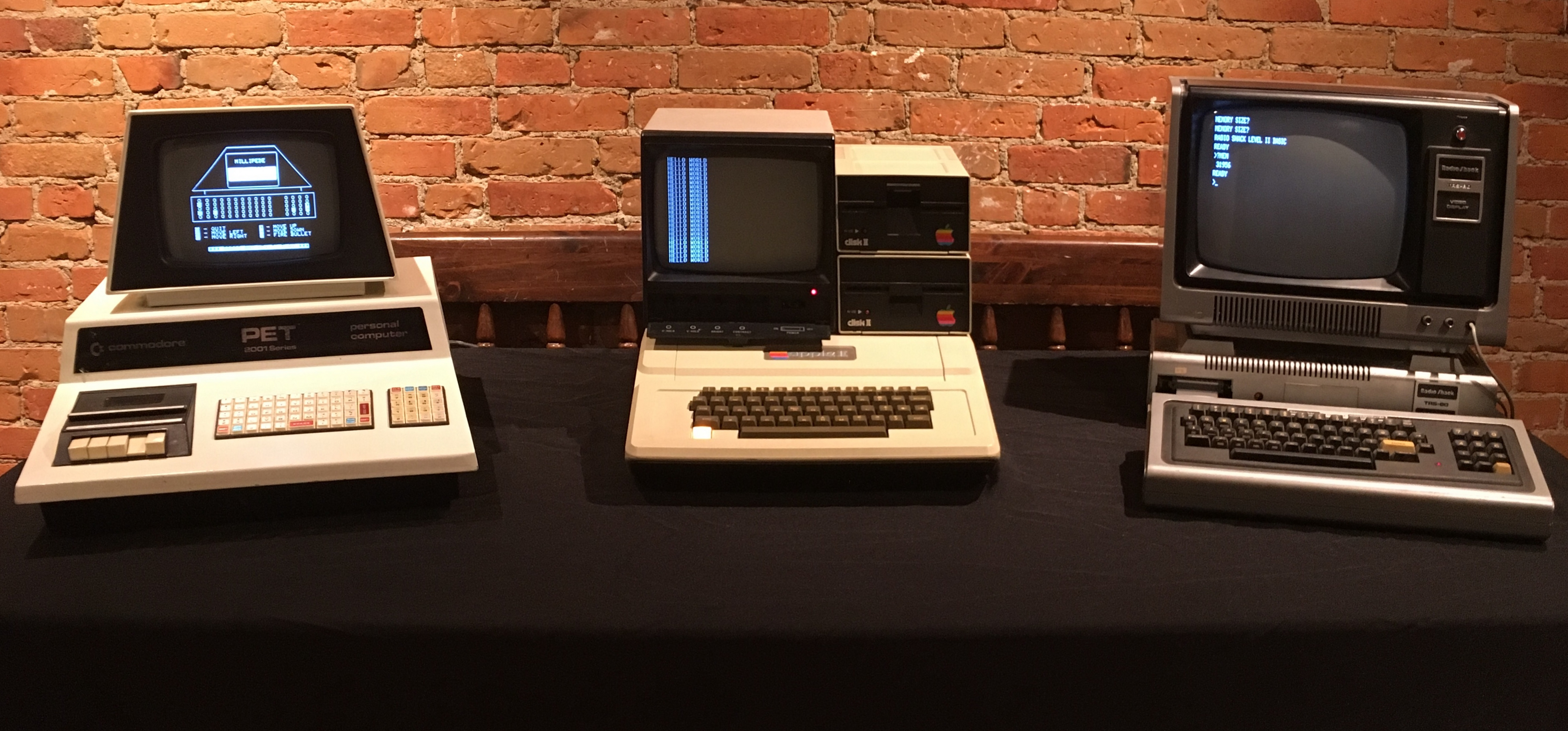 The three computers referred to by Byte Magazine as the "1977 Trinity": The Apple II, the TRS-80 Model I, and the Commodore PET 2001. (Image courtesy of Boston-based collector Timothy Colegrove. For more information about this image send an email to )